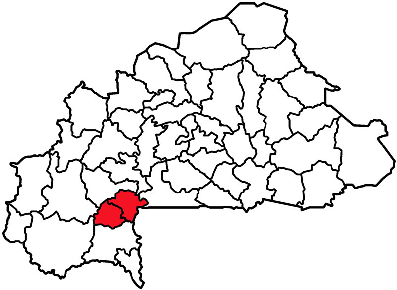 Map of catholic diocese of Diébougou, Burkina Faso.